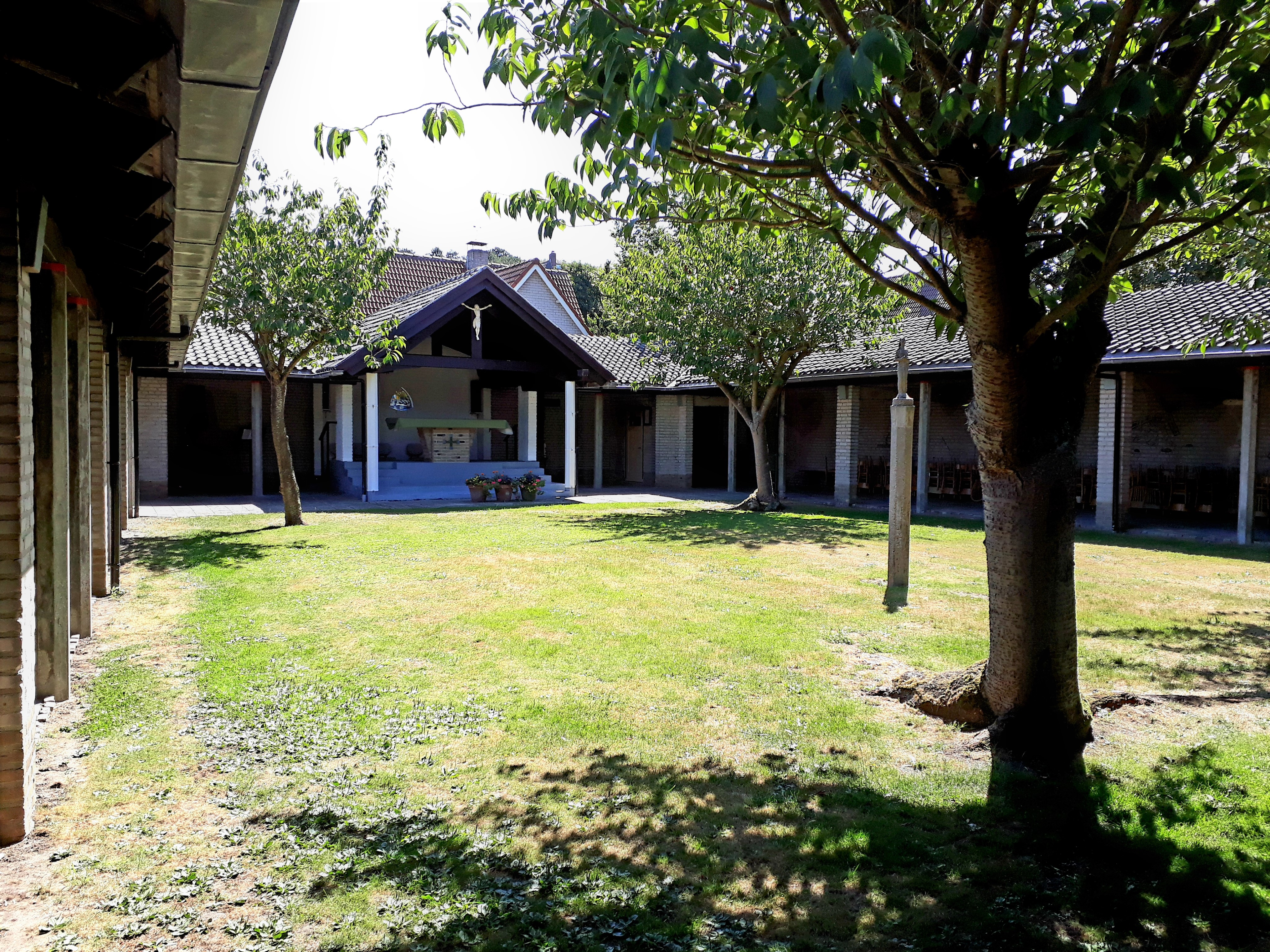 The courtyard of the Roman Catholic St. Catharina tourist church in the village of Zoutelande, Netherlands.